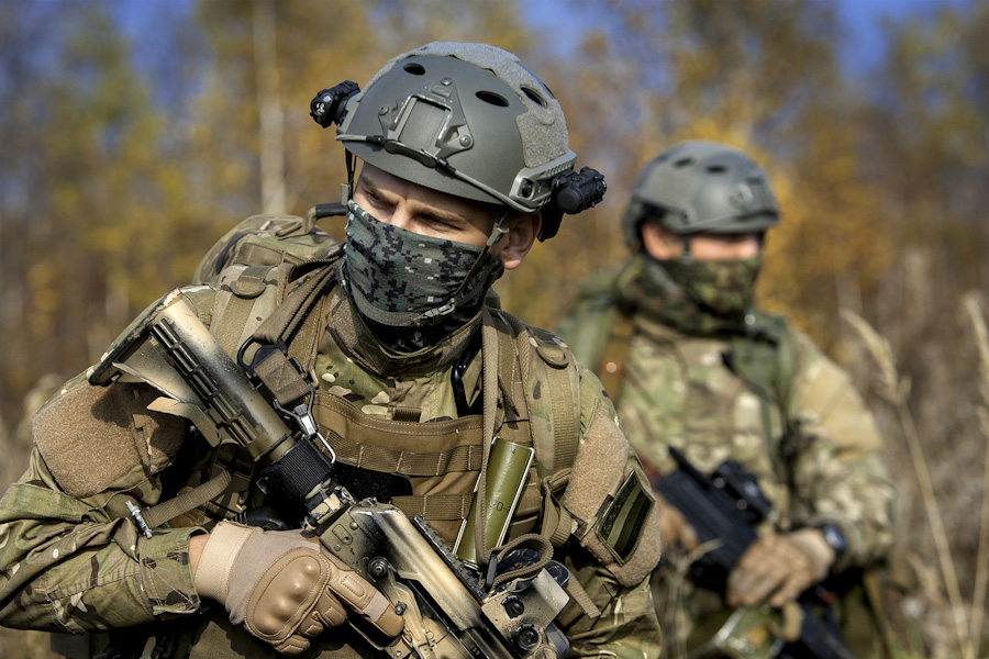 Russian Special Operations Forces photo from 27 February special operations forces day gallery.